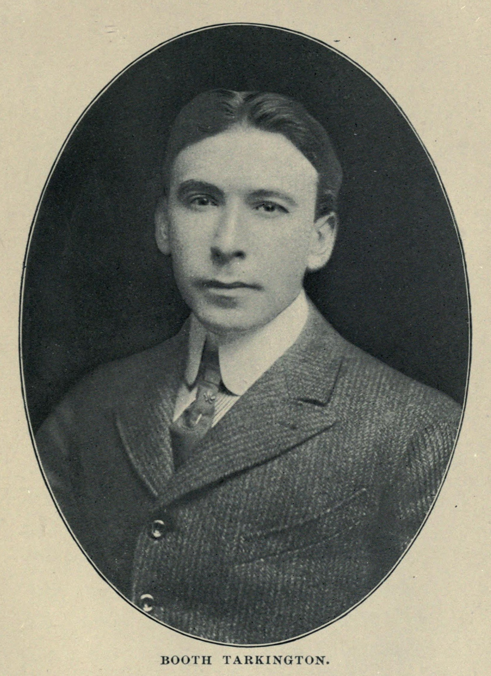 Booth Tarkington